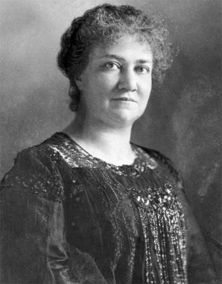 Rosa Mayreder, 1905